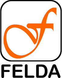 Official Logo